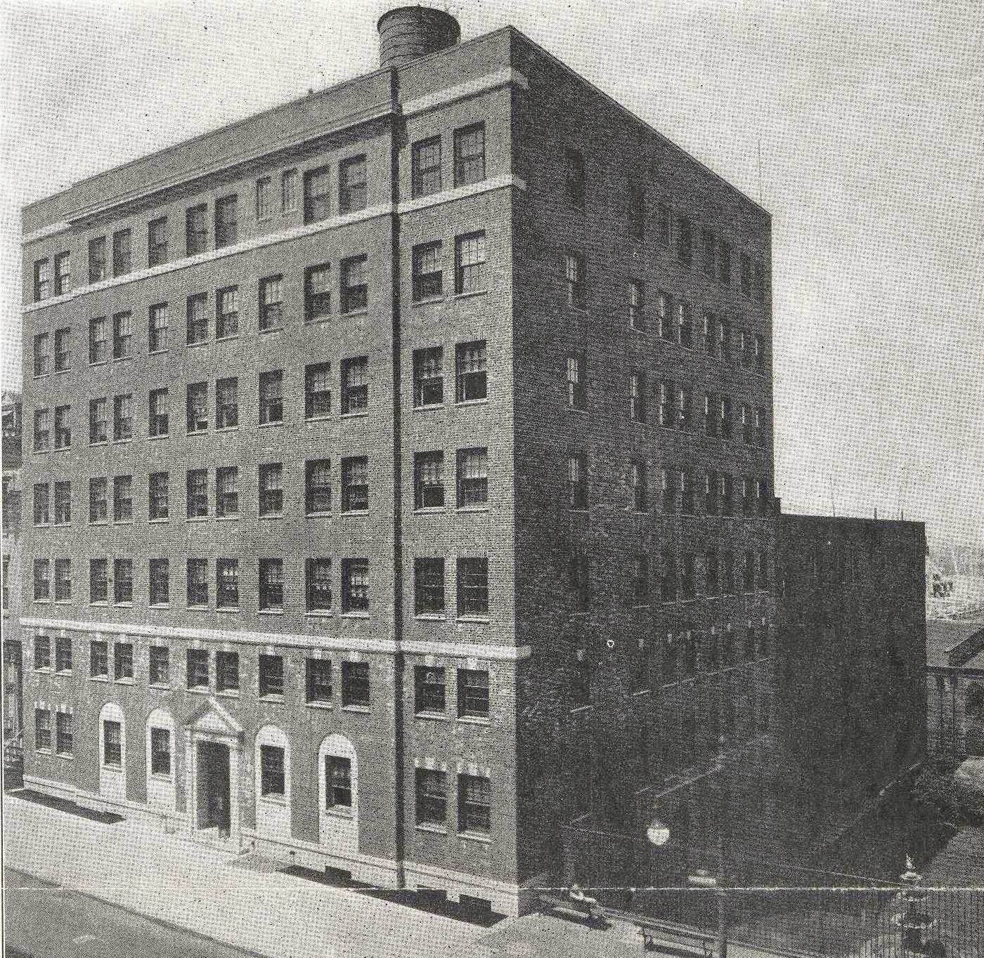 Picture of residence and executive offices of the Watchtower Bible and Tract Society at Columbia Heights, Brooklyn, New York taken in 1928. The large building had been erected in 1927. In 1931, the group took the name "Jehovah's Witnesses." Photo was taken from the 1928 Messenger, published by the Watchtower Society. Copyright for the Messenger was not renewed and picture is in the public domain. Picture was scanned from original magazine.